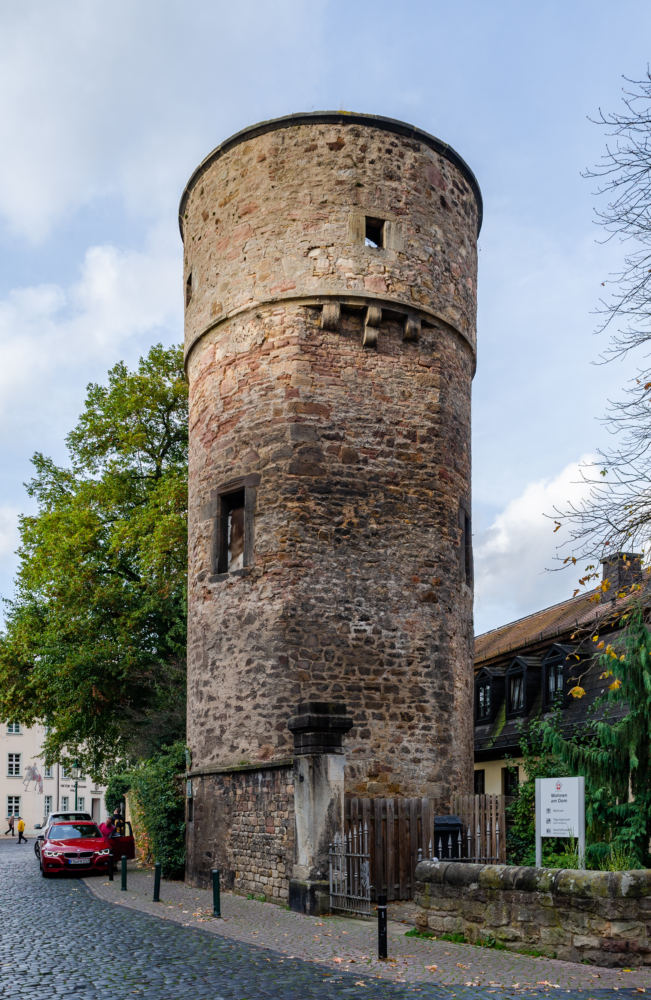 Fulda (Hesse, Germany) – city wall – former witches' tower